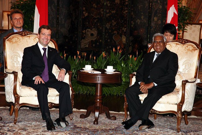 SINGAPORE. With President of Singapore Sellapan Ramanathan.